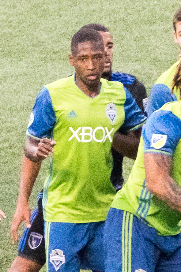 Kelvin Leerdam during Seattle Sounders FC vs. San Jose Earthquakes on July 23, 2017